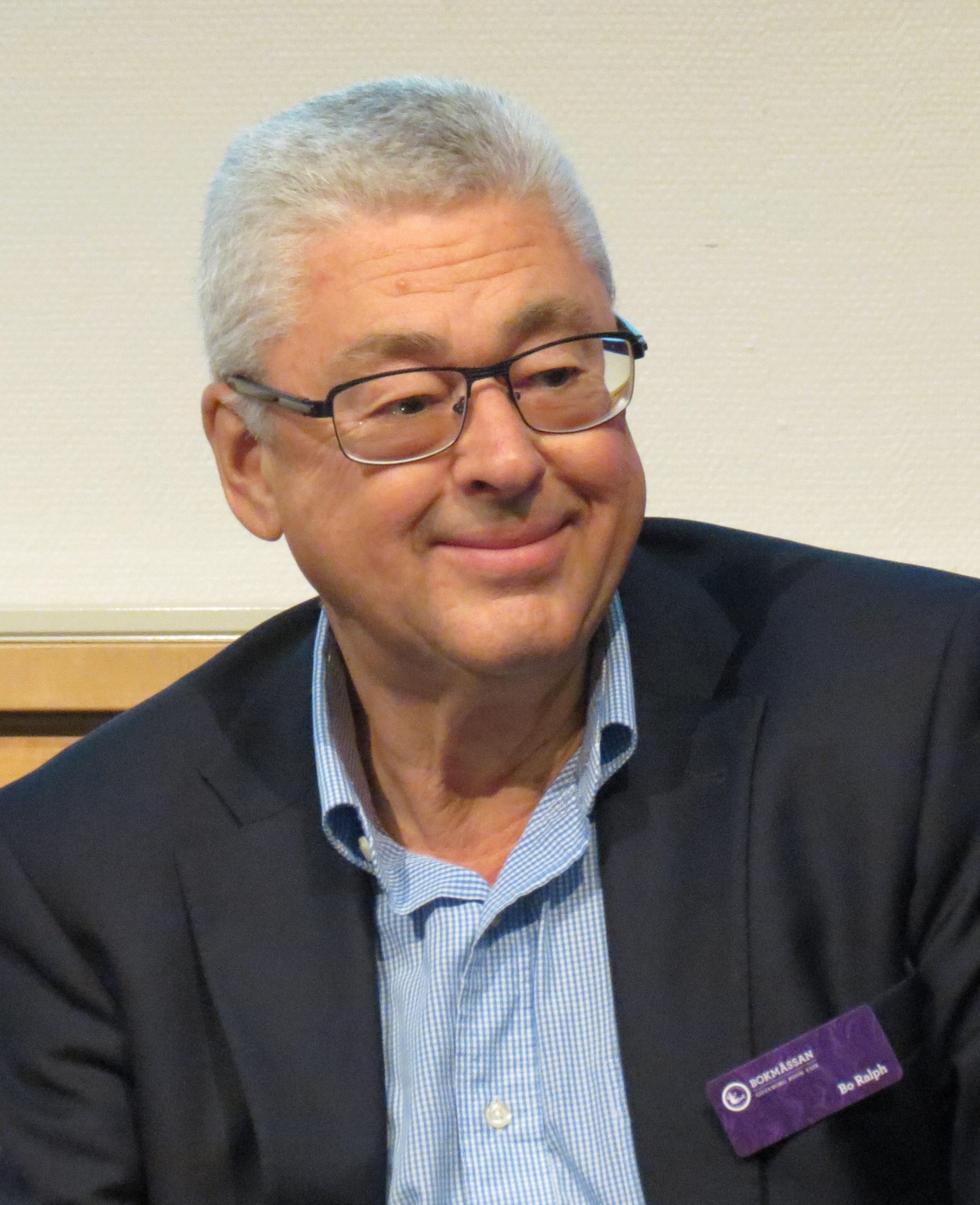 Bo Ralph of the Swedish Academy at a seminar at the Gothenburg Book Fair 2015.